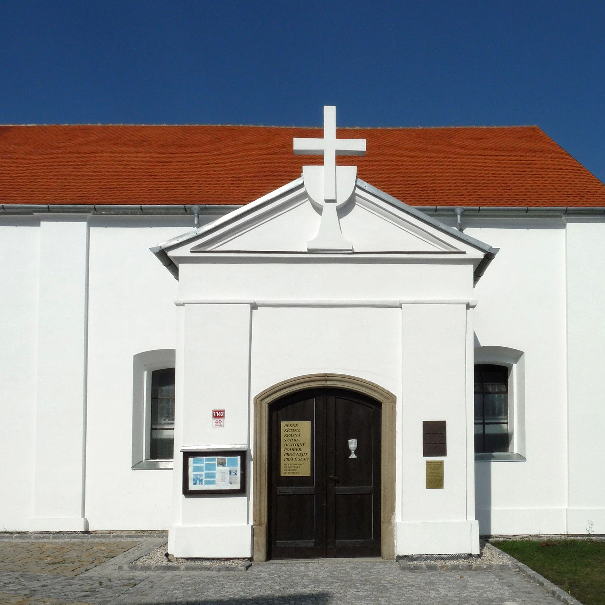 Former synagogue in the town of Rousínov, Vyškov District, Czech Republic. Česky: Bývalá synagoga ve městě Rousínov, okres Vyškov, Jihomoravský kraj.